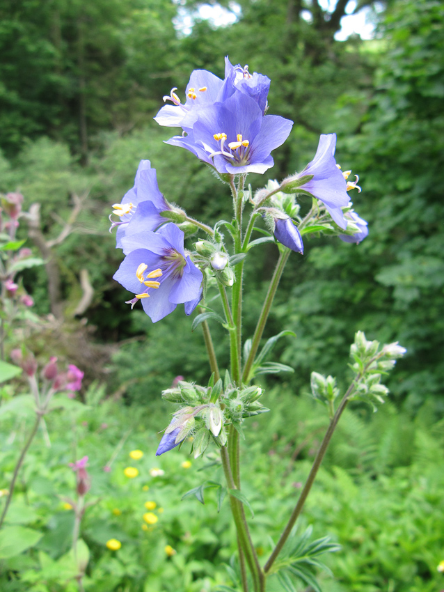 An attractive flowering plant growing in damp woodland.